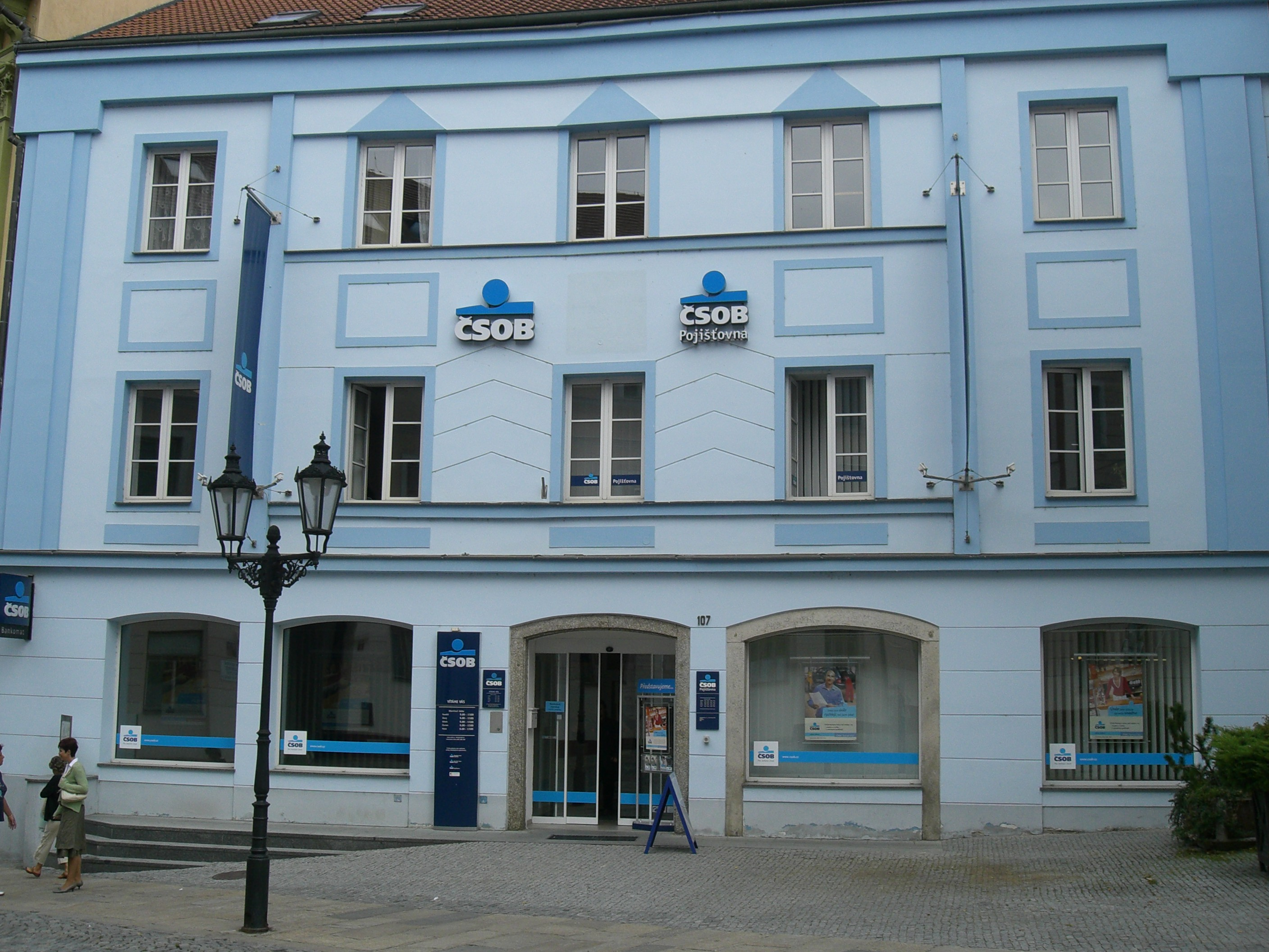 Československá obchodní banka (ČSOB) in Písek-Vnitřní Město, Karlova 107/1, Czech Republic